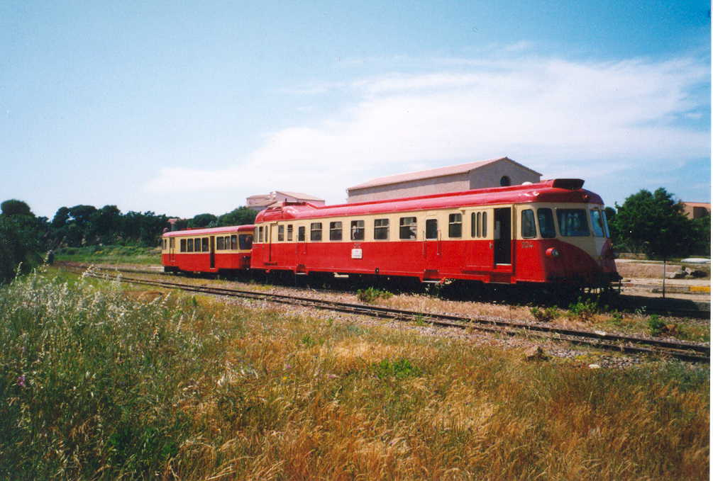 A motor coach build in 1949 of the corsean railways, France.